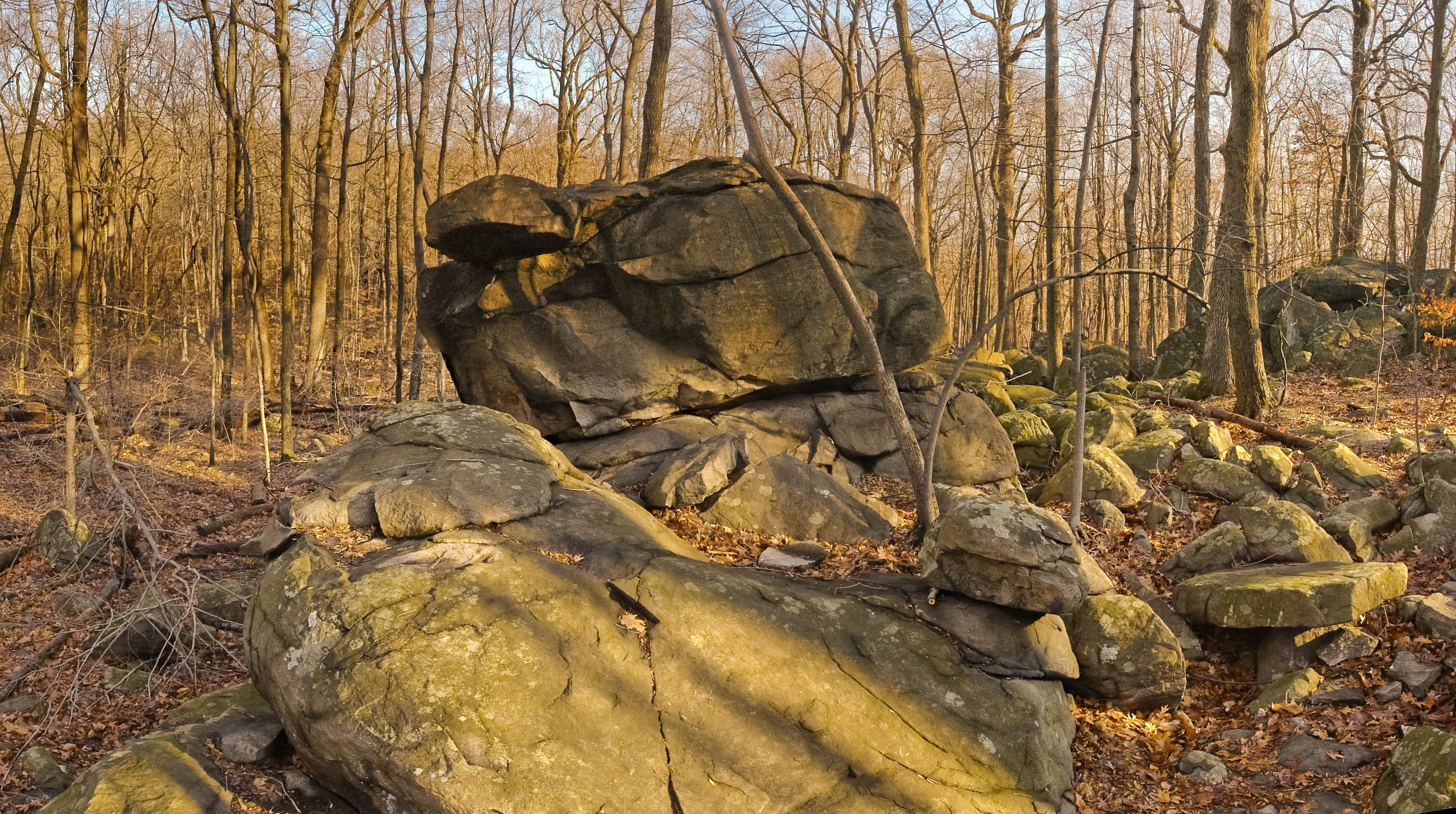 The Ridge Trail, at the top of Sourland Mountain, winds through big diabase boulders. Within the Sourland Mountain Preserve, New Jersey.